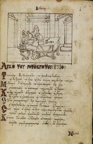 Erotokritos, manuscript copy from the Ionian Islands, Greece. Now at the British Library (Harley MS 5644, f.10r, 19 cm x 28 cm).